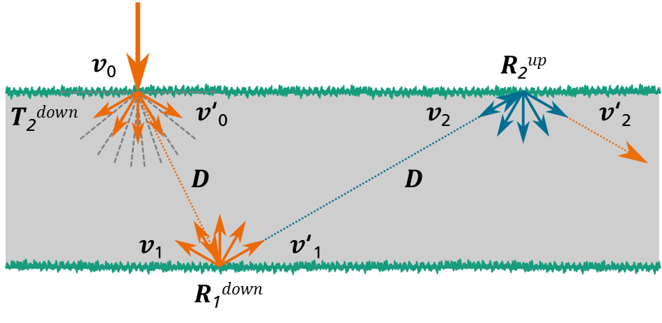 Sketch of the OPTOS simulation procedure. Light that is incident from above onto a sheet with structured front and rear interface is redistributed during the interaction with these interfaces and propagates through the sheet. The power distribution vectors vi contain one entry for each angle channel with the fraction of the total incident power as value. Optical properties of the sheet are calculated in OPTOS via multiplications of the redistribution matrices R and T, the propagation matrix D and the incident light distribution v0.